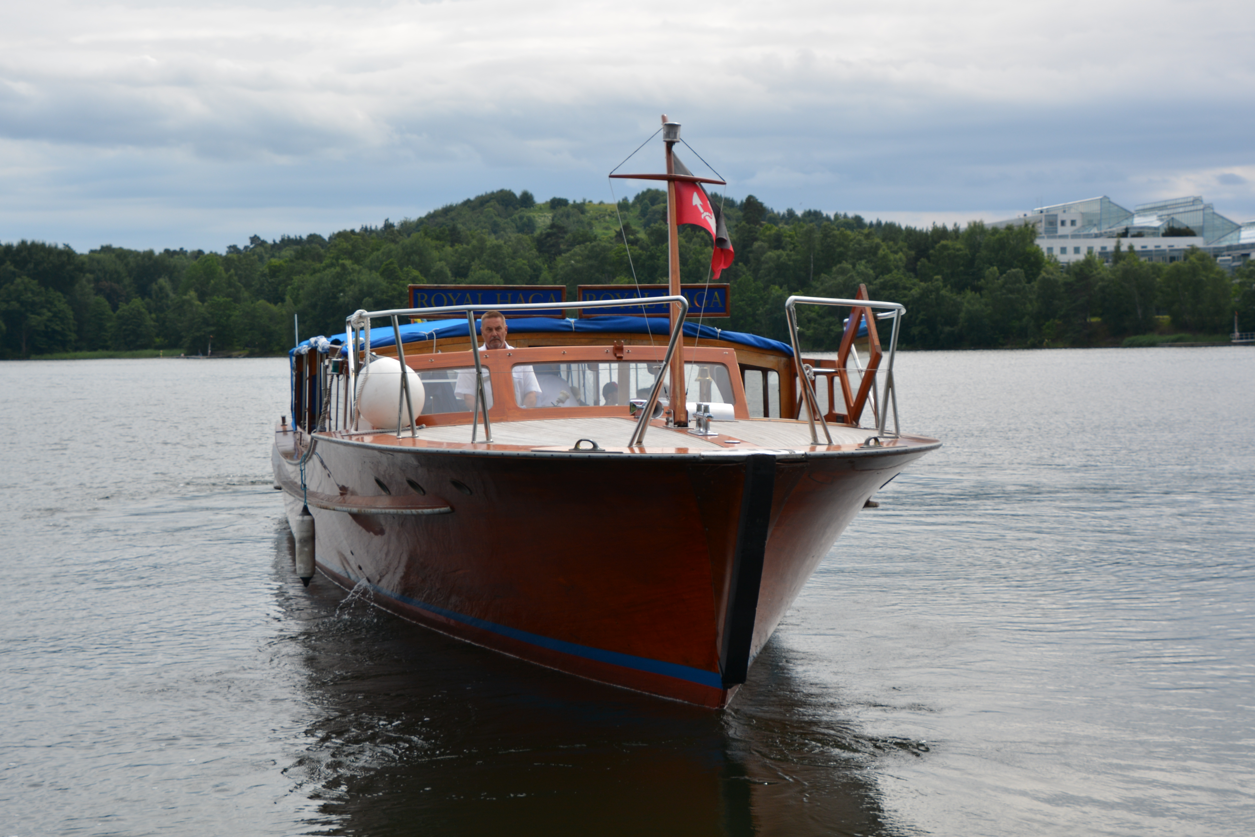 M/S Stegeholm, Swedish heritage passenger ship, Stockholm, at Brunnsviken